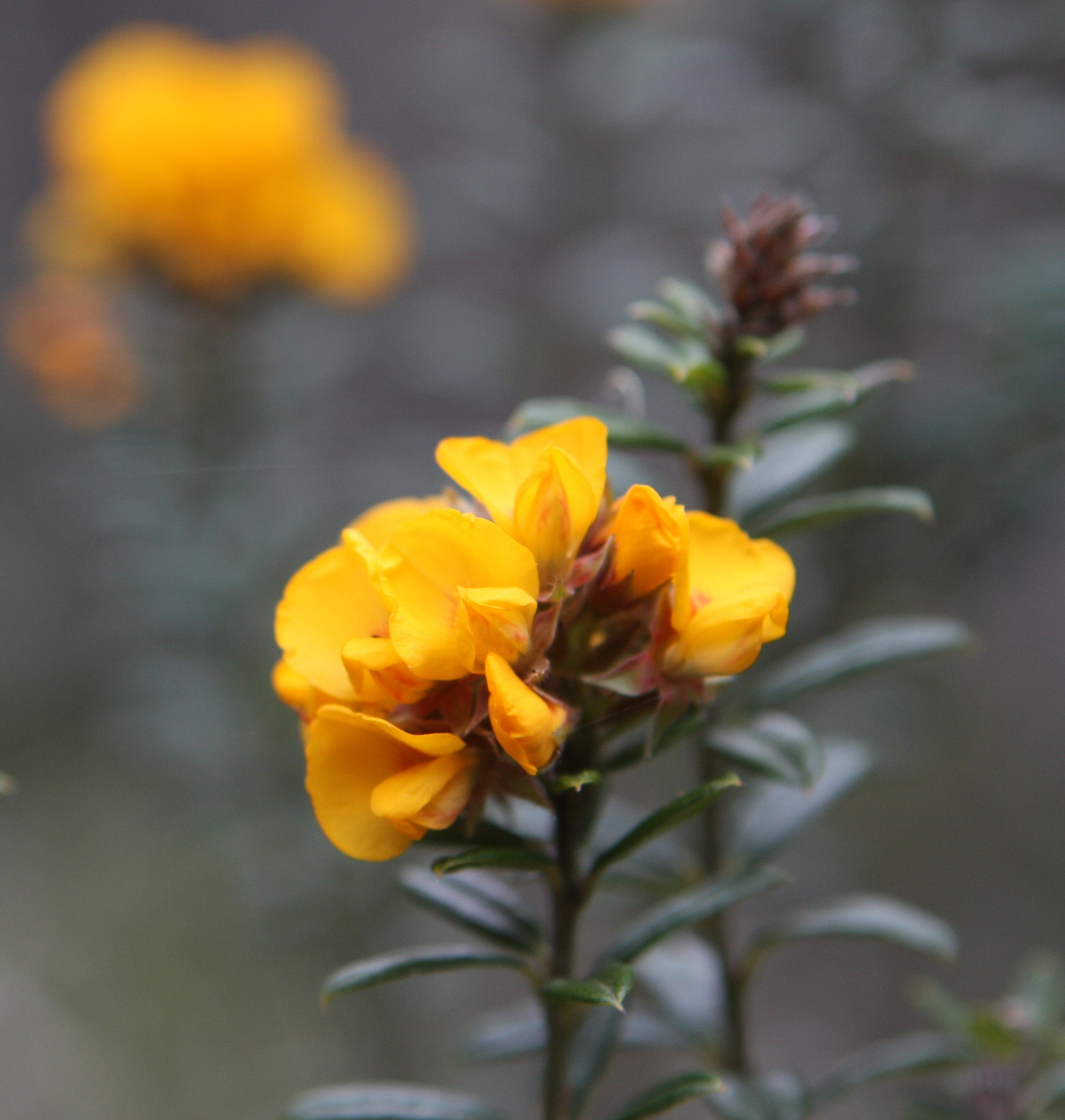 Pultenaea juniperina in Meander Valley, Tasmania